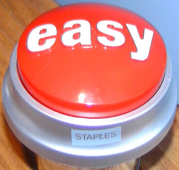 A Picture of an Staples, Inc. easy button